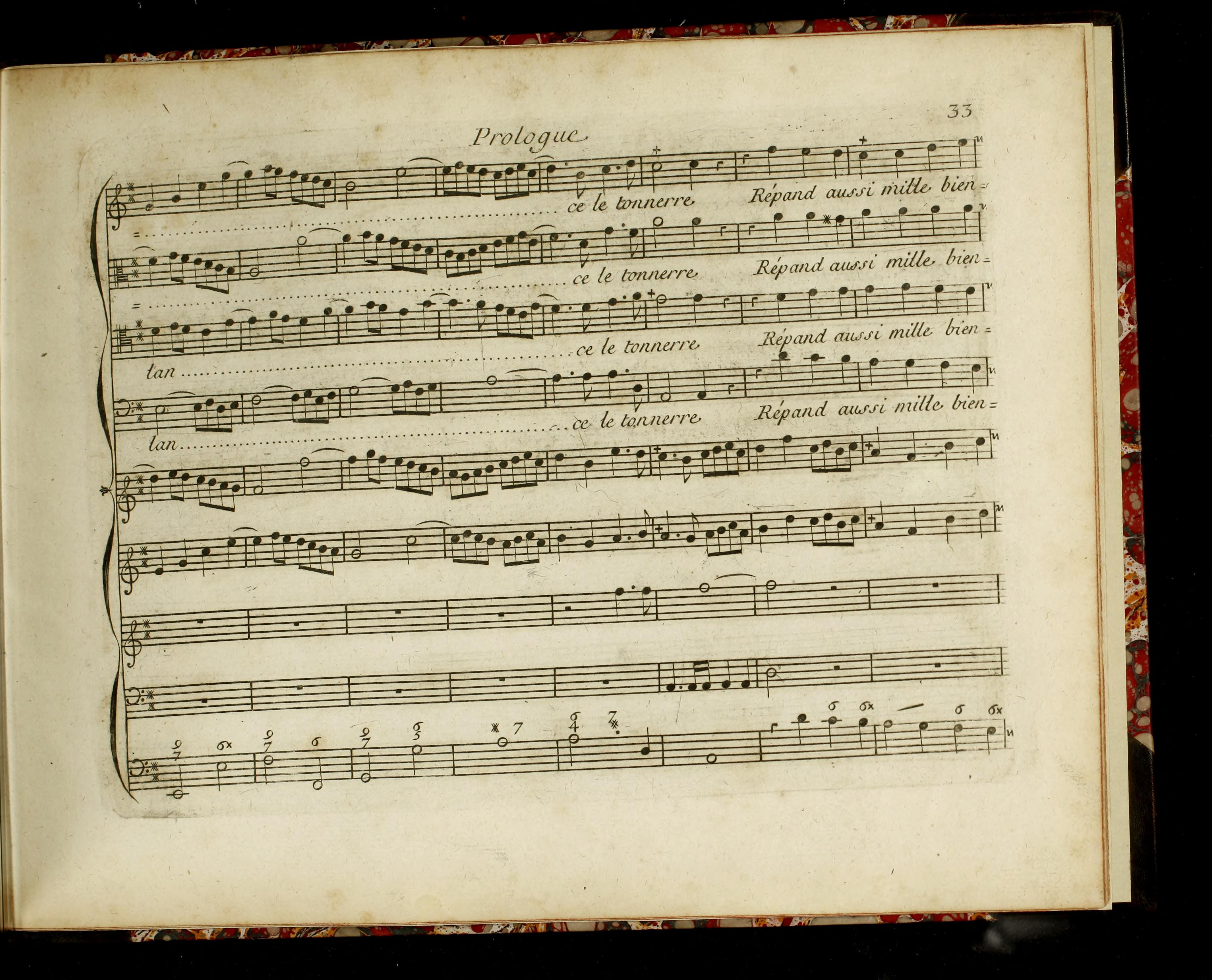 Title: Le Trophée, divertissement à l'occasion de la Victoire de Fontenoi... Représenté par l'Académie royale de musique le mardy 10 aoust 1745.... Les paroles sont de M. de Moncrif... (Musique imprimée) Year: 1745 (1740s) Authors: Rebel, François, 1701-1775, composer Francœur, François, 1698-1787, composer Subjects: Publisher: Paris: Mme Boivin: Le Clerc Text Appearing Before Image: 33 ProLoguc- Text Appearing After Image: i ^1